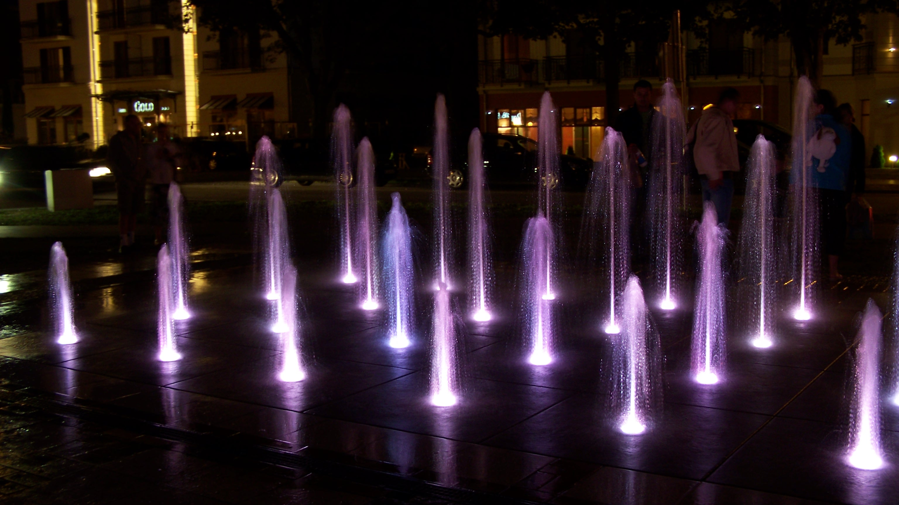 Fountain on promenade in Świnoujście